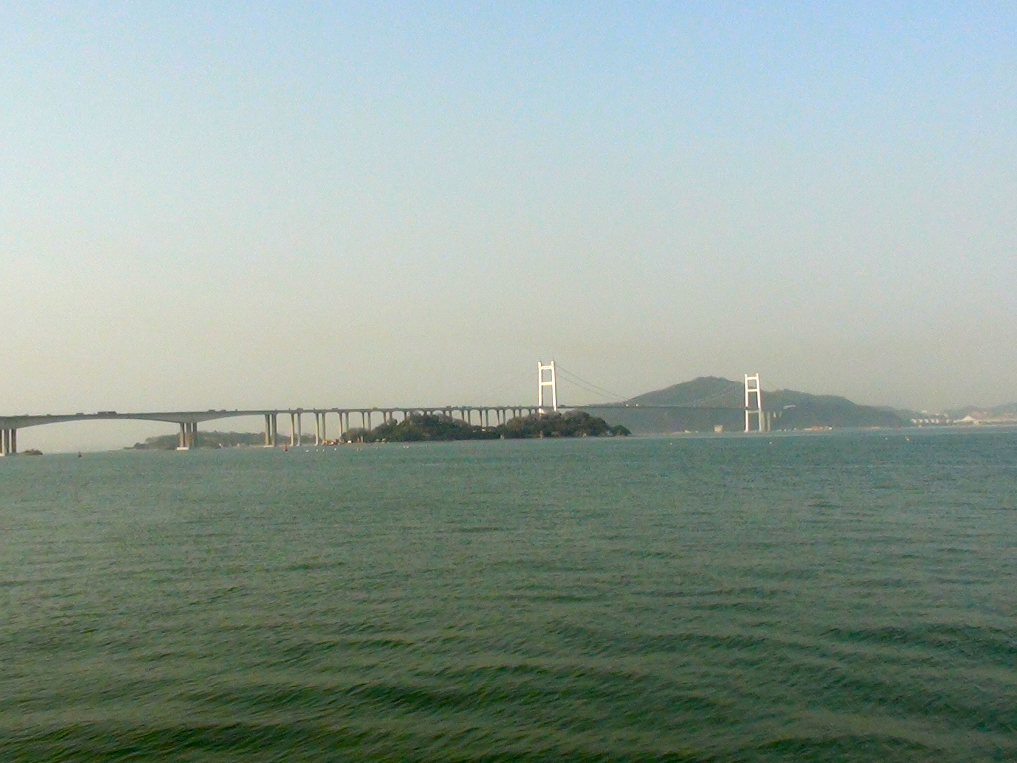 Humen Pearl River Bridge